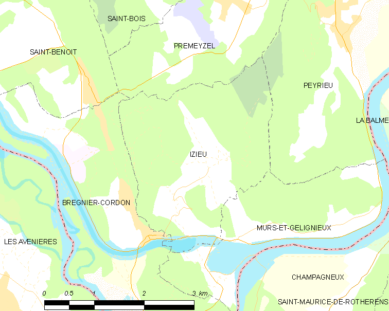 Map of French commune: Izieu Map commune FR insee code 01193.png